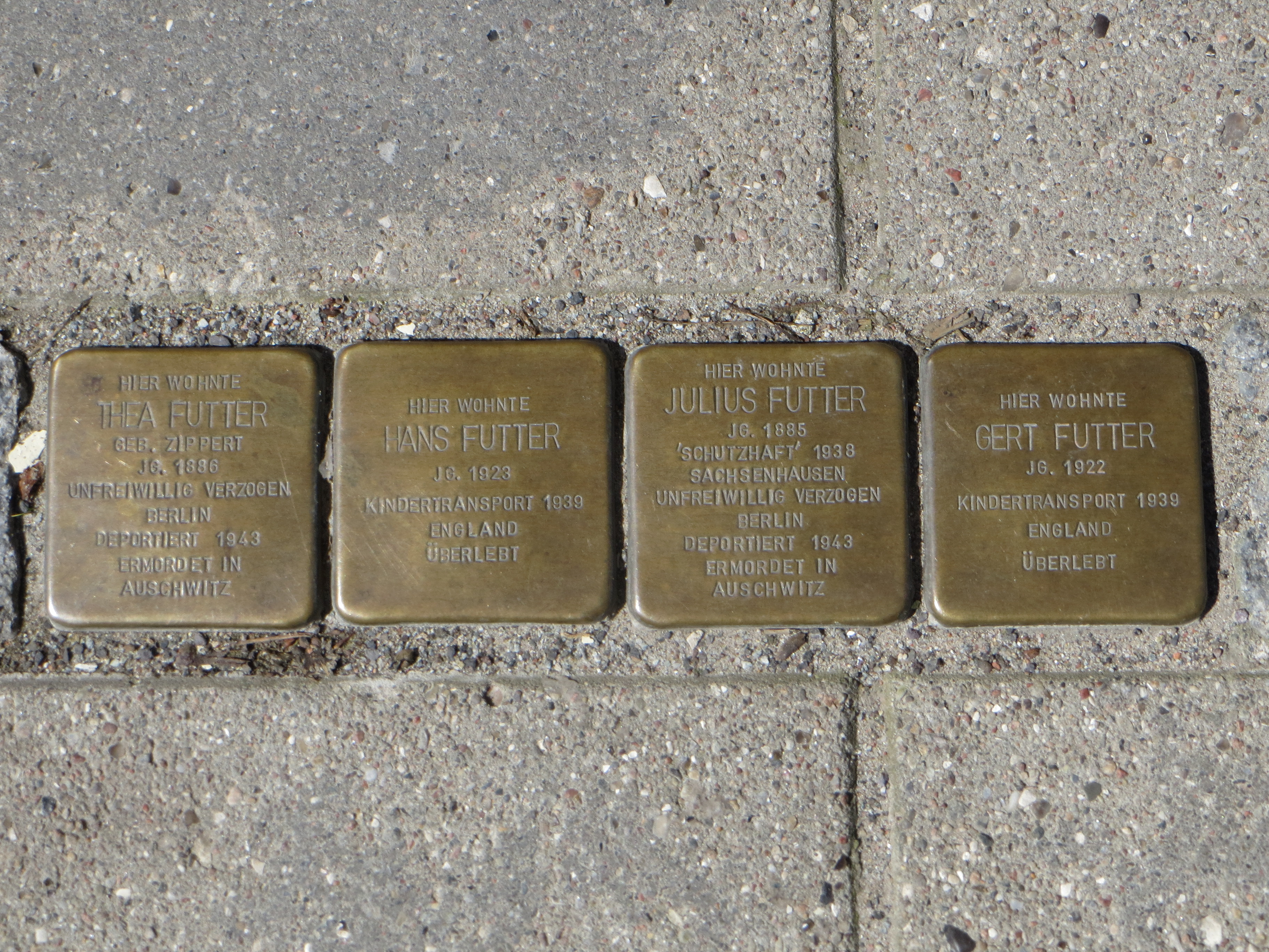 Stolpersteine in front of Brüggstraße 12 in greifswald commemorating the Futter family